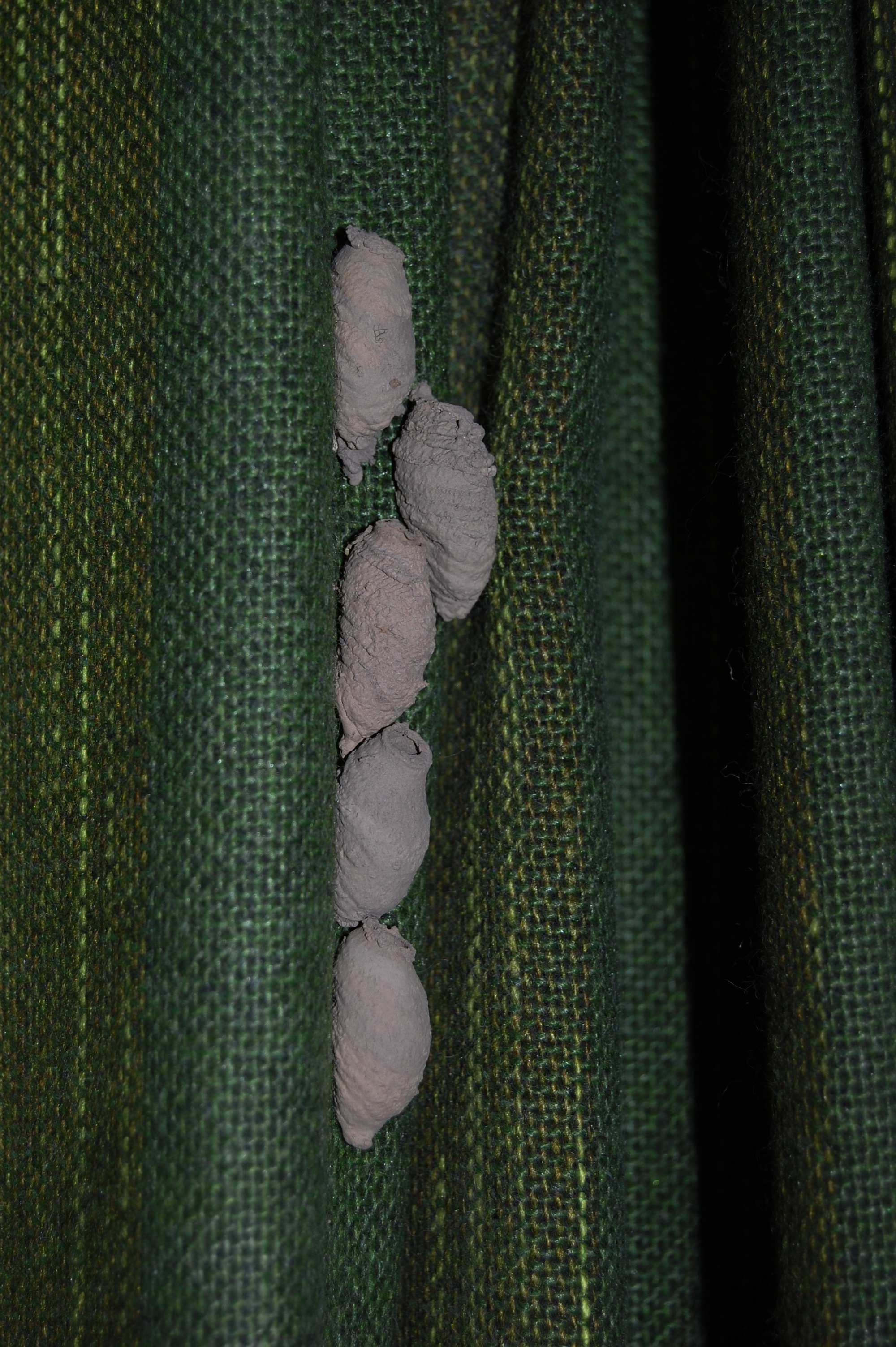 Wasp nests hiding inside a curtain (note: the Mediawiki software does not yet honor the orientation field of the Exif metadata; the image currently and incorrectly appears as a landscape picture)